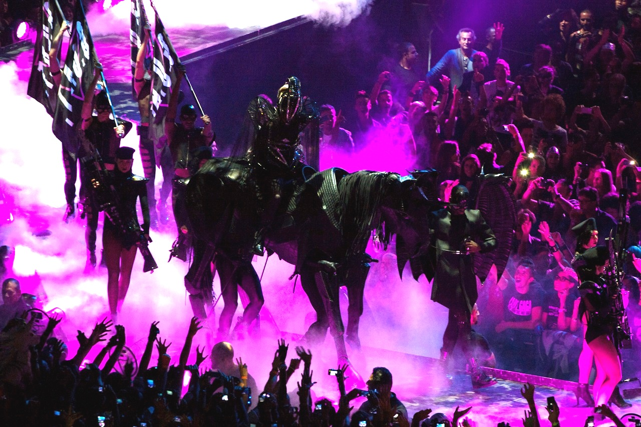 Lady Gaga opening the Born This Way Ball with "Highway Unicorn (Road to Love)" in Milan, Italy.